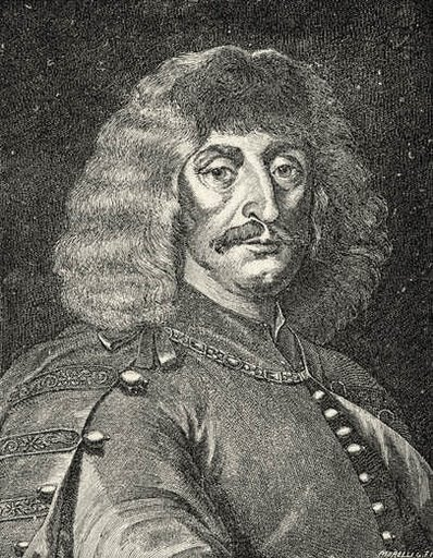 Miklós Zrínyi (1620-1664), Hungarian poet